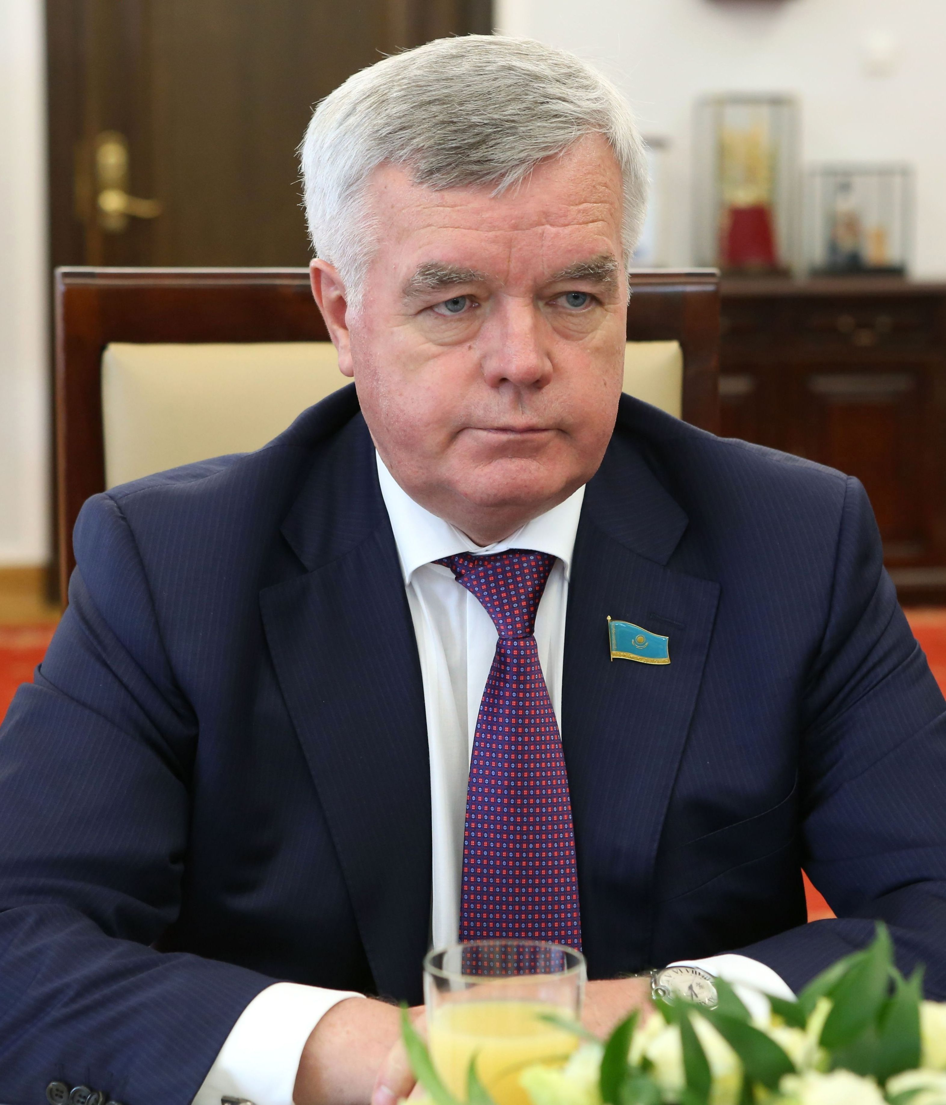 Deputy Speaker of the Parliament of Kazakhstan (Mazhilis) Sergey Dyachenko in the Polish Senate